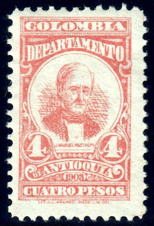 Colombian department of Antioquia 4 pesos dull red, mint. Depicting José Manuel Restrepo Vélez Catalogue: Sc. 155